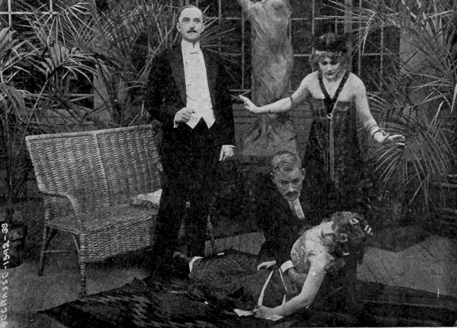 Tangled Hears (1916, scene from the film)